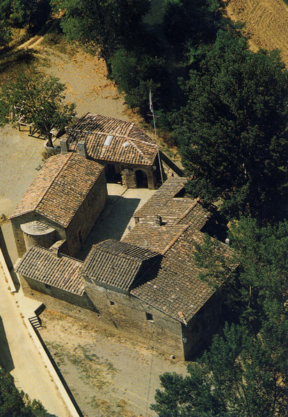 Castello della Magione, seen from above